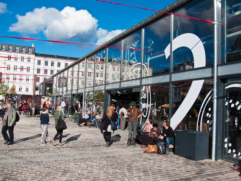 The newly finished (late 2011) Torvehallerne, a town market built on Israels Plads, in Copenhagen, Denmark